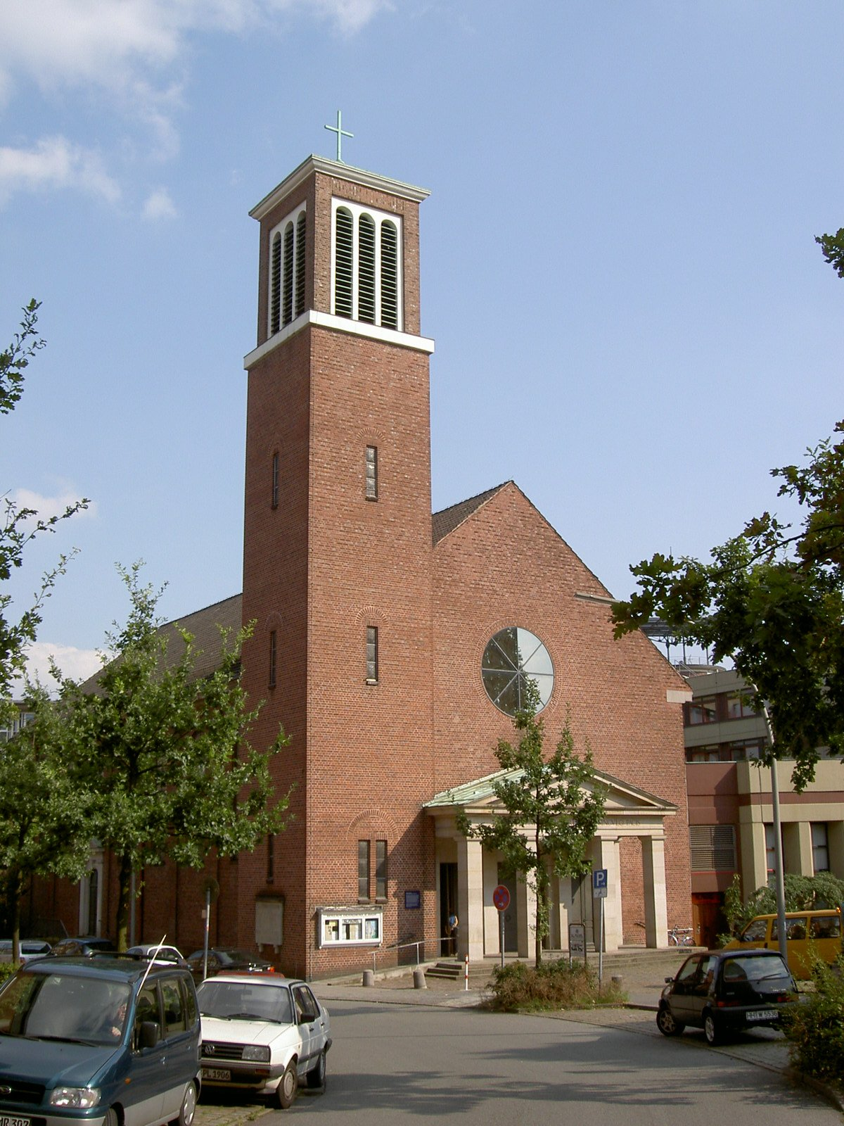 The "Small Michel" (Kleiner Michel), a Catholic church in Hamburg